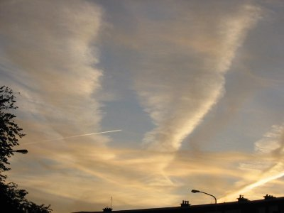 Cloud pattern by contrails of aircraft, The Hague, The Netherlands, around 20.00 h, july 2003.